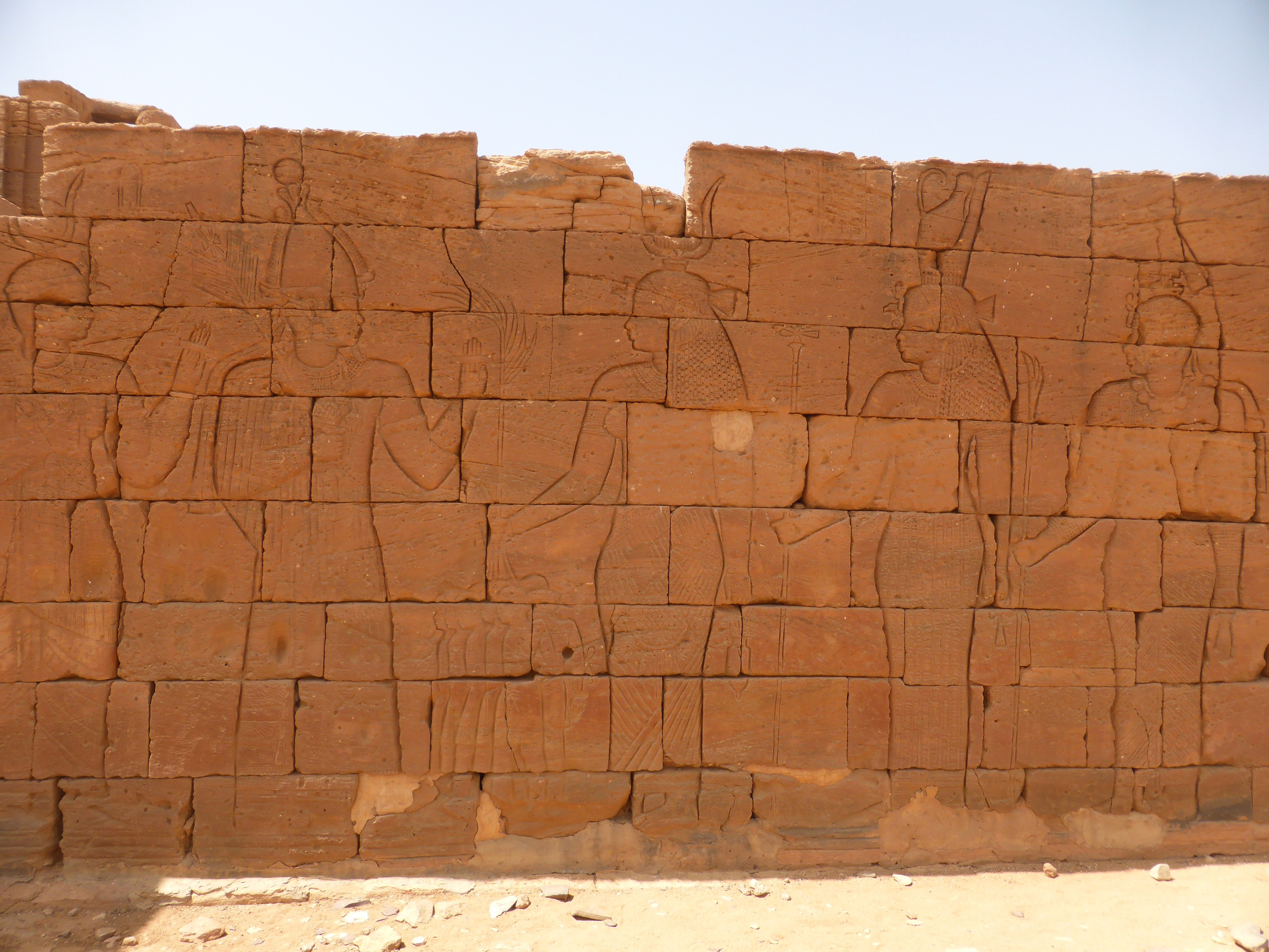 Temple of Apedemak (7)